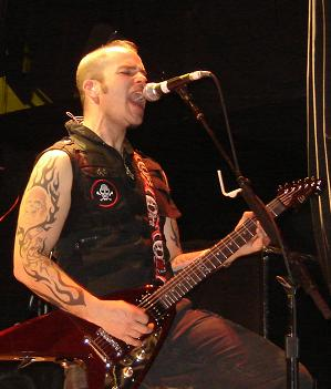 Picture taken by me at Dec. 2 2006 Queensryche concert